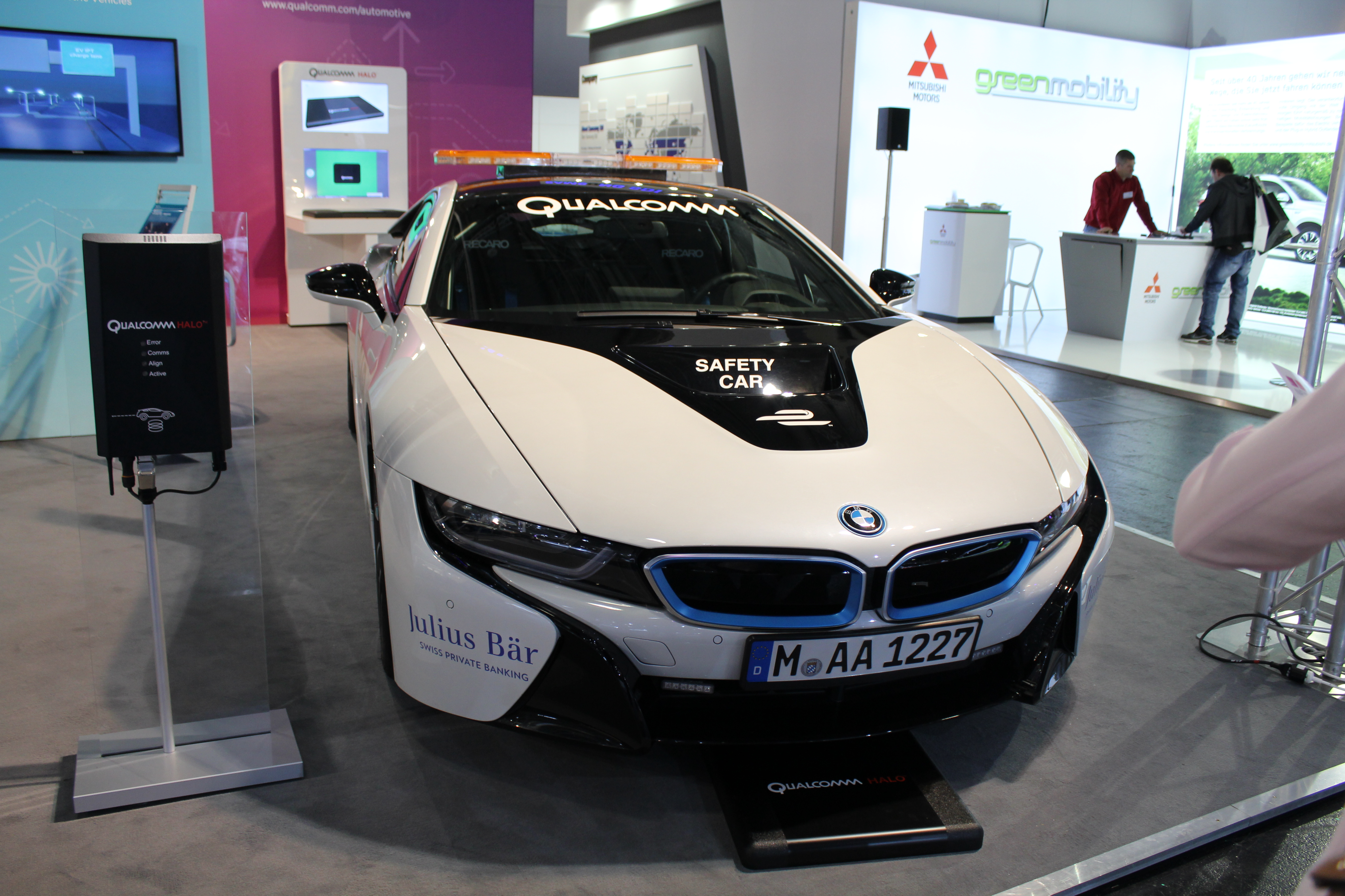 Passenger vehicles being displayed in 2015 International Motor Show Germany.